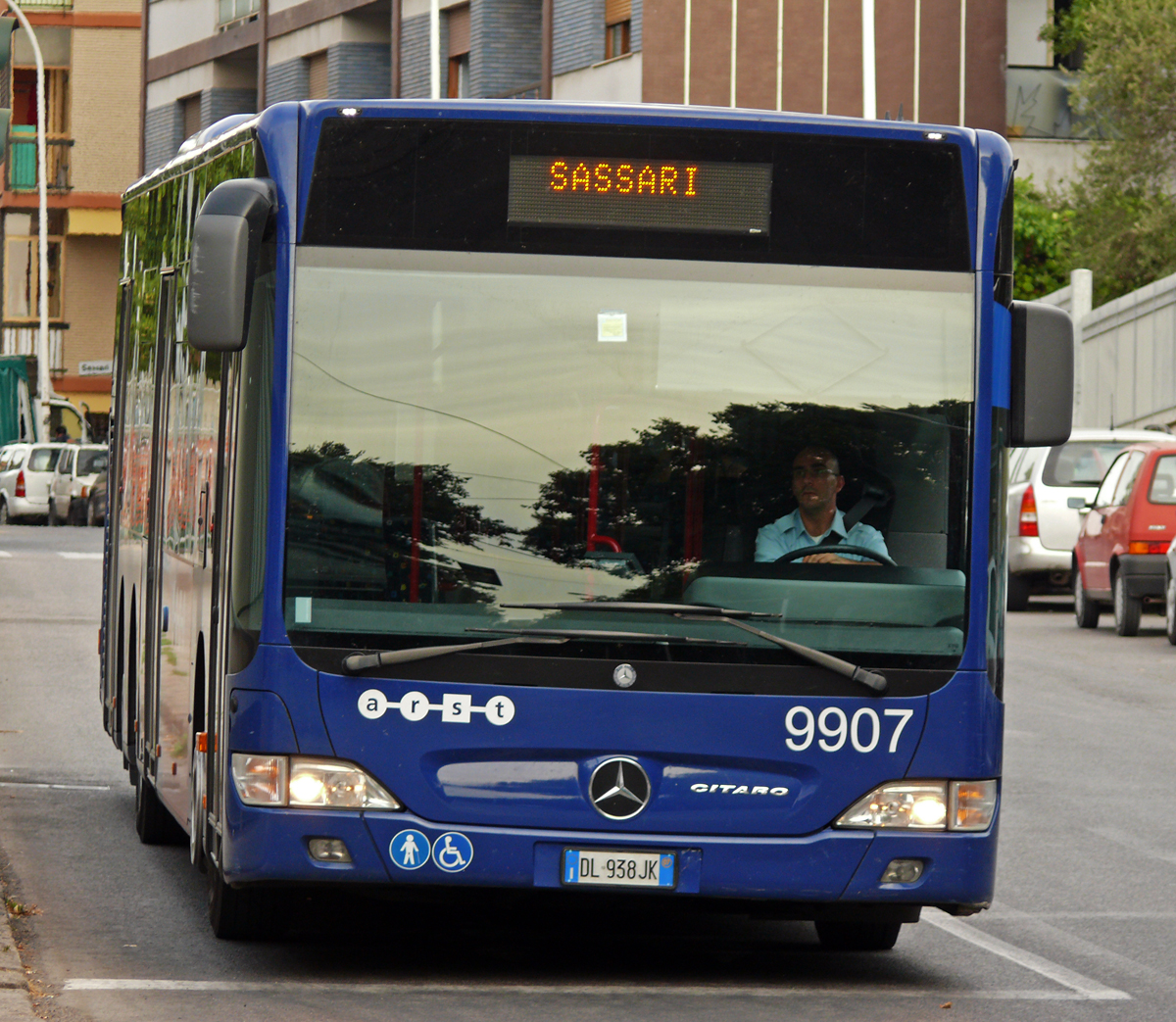 Bus (#9907) of Arst in Sassari, Sardinia.